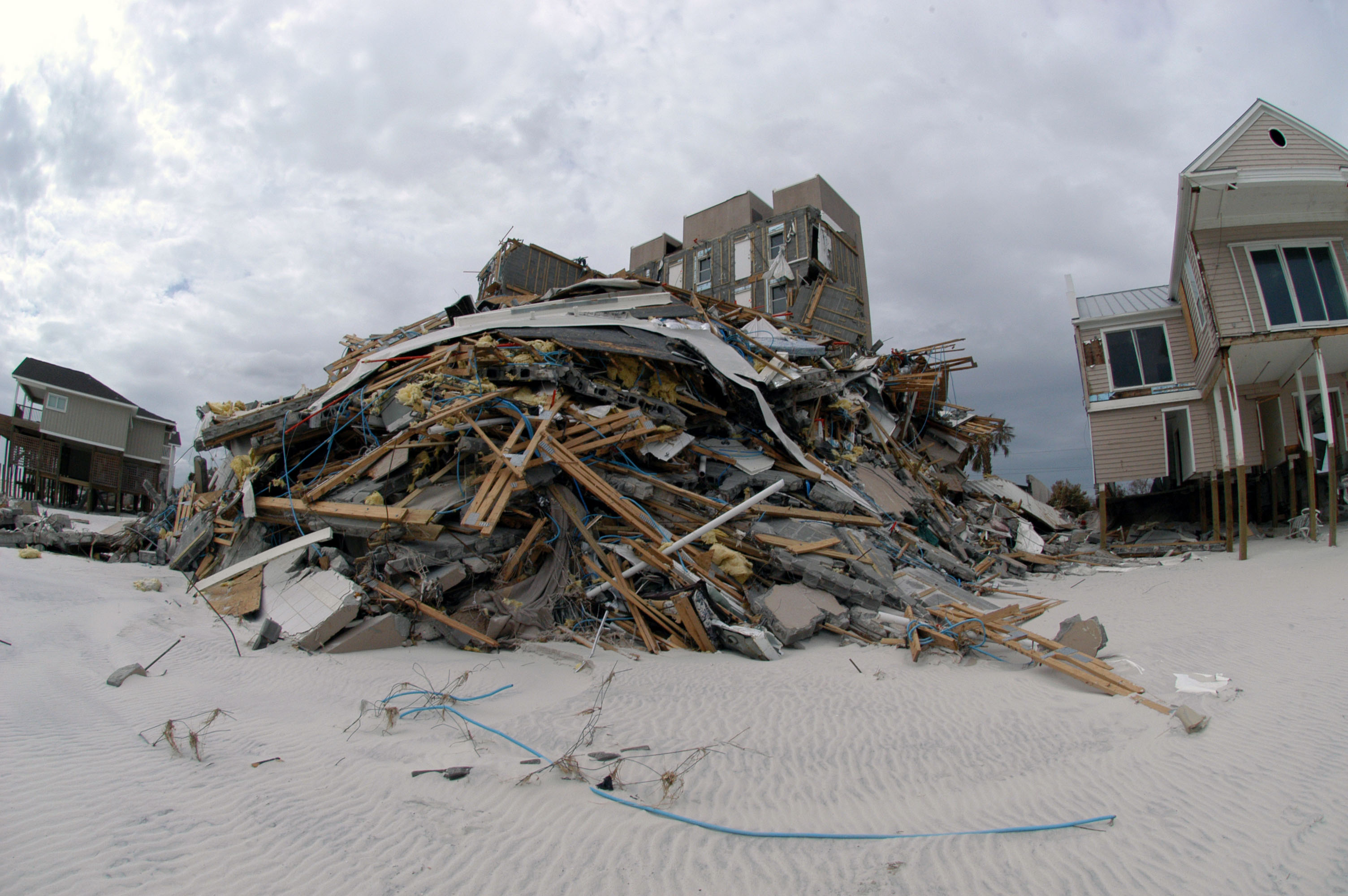 Orange Beach, FL, September 22, 2004-- The effects of Hurricane Ivan are shown along the shore in Orange Beach. FEMA Photo/Jocelyn Augustino